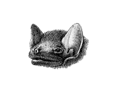 Coleura afra